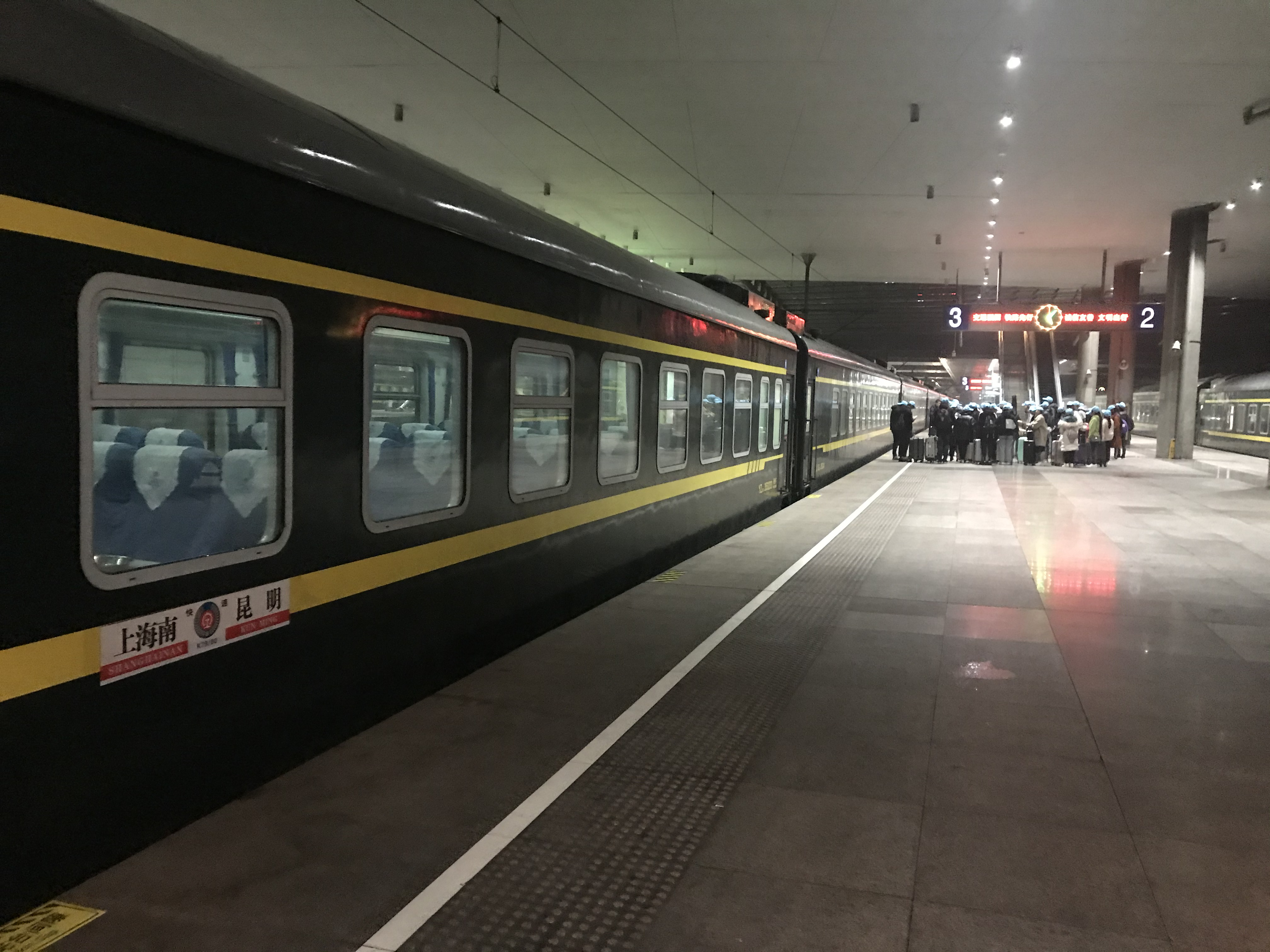 K80 from Kunming to Shanghainan